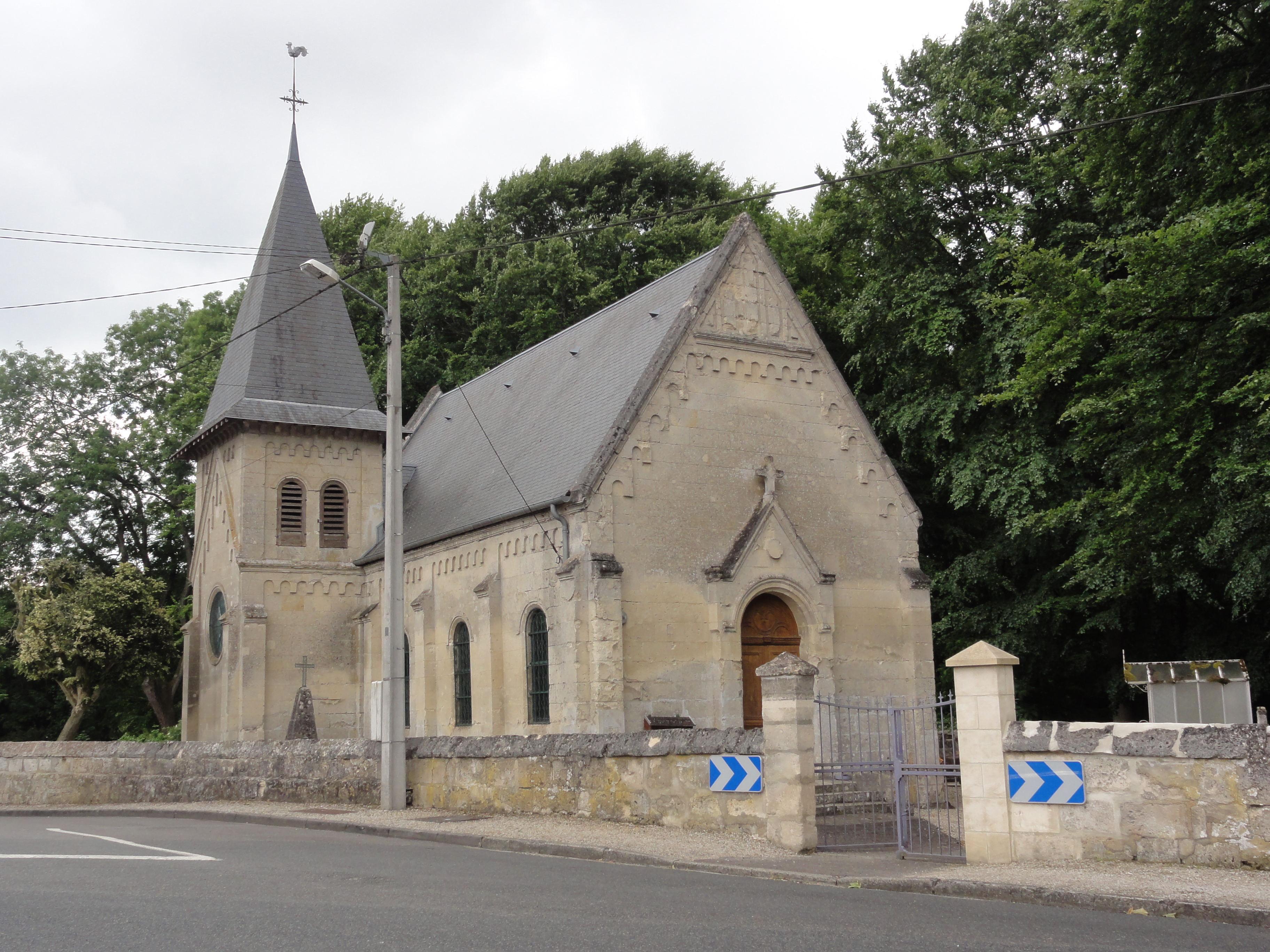 Verneuil-sous-Coucy (Aisne) église